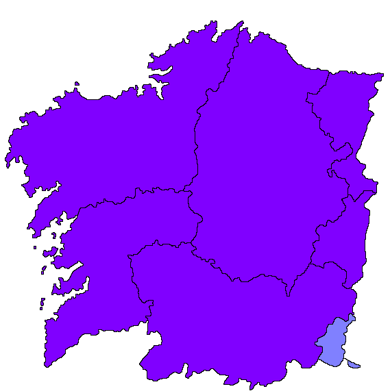 As Portelas in a map showing territories of Galician language.